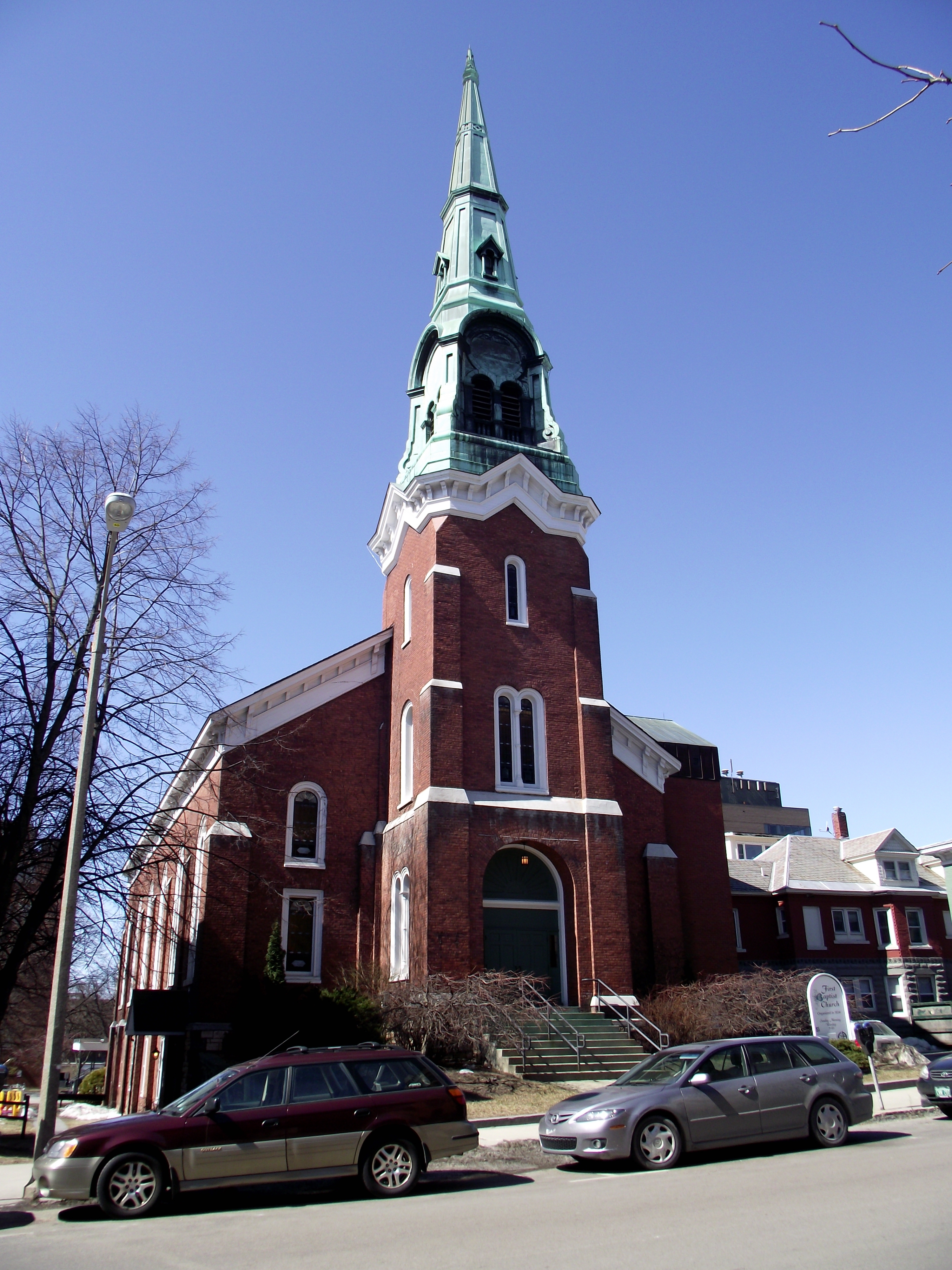 First Baptist Church Burlington, Vermont